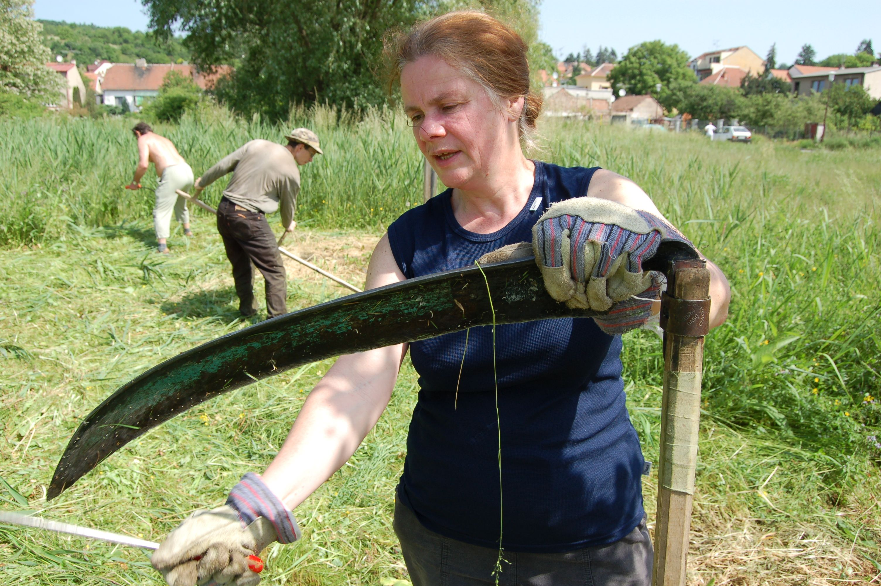 Photo of Yvonna Gailly